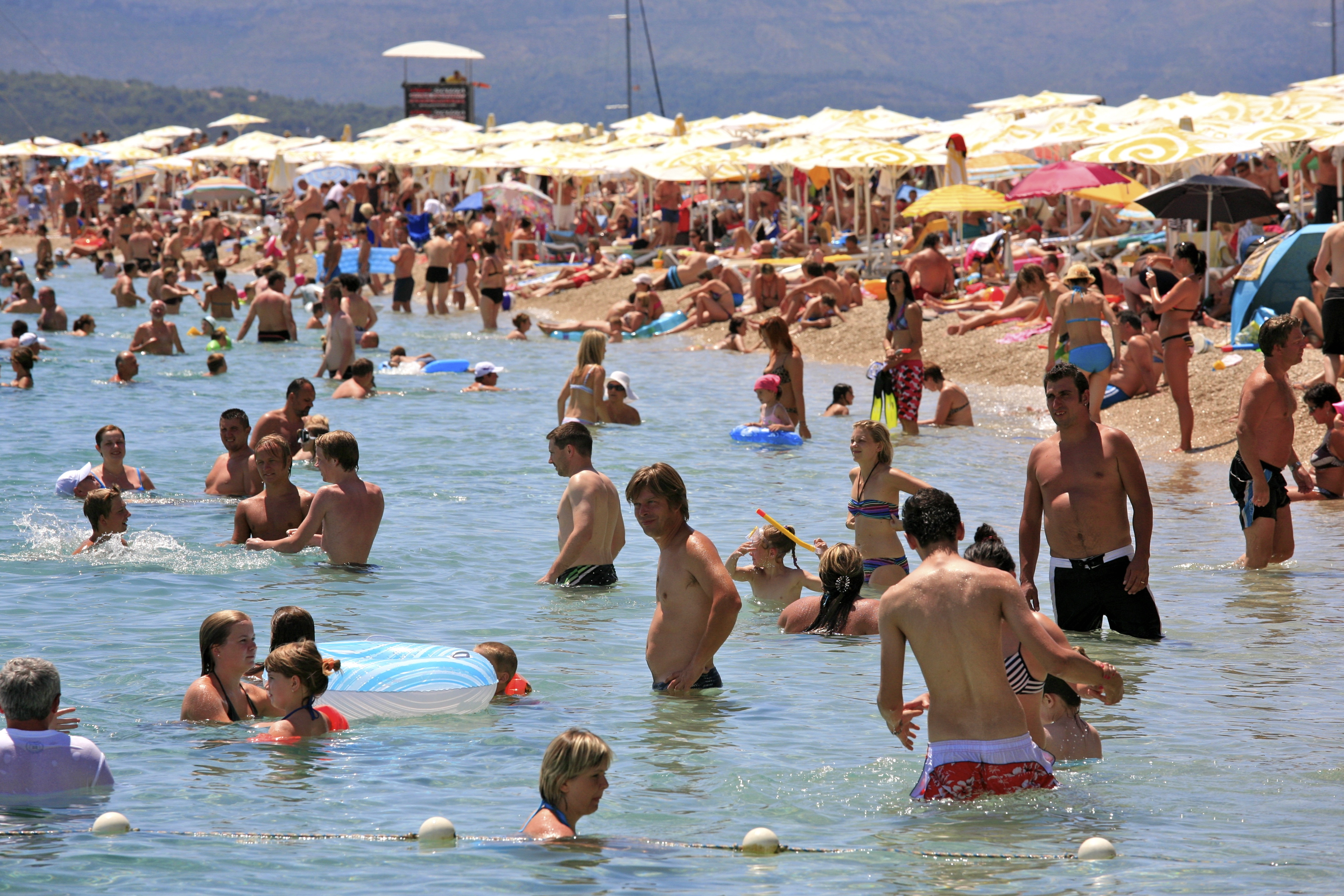 Crowds at Zlatni Rat beach, Bol, Croatia